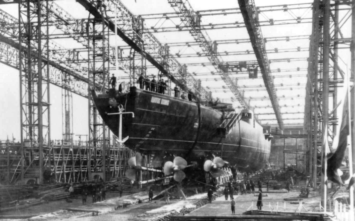 The Imperial Russian cruiser Admiral Nakhimov, 24 October 1915.